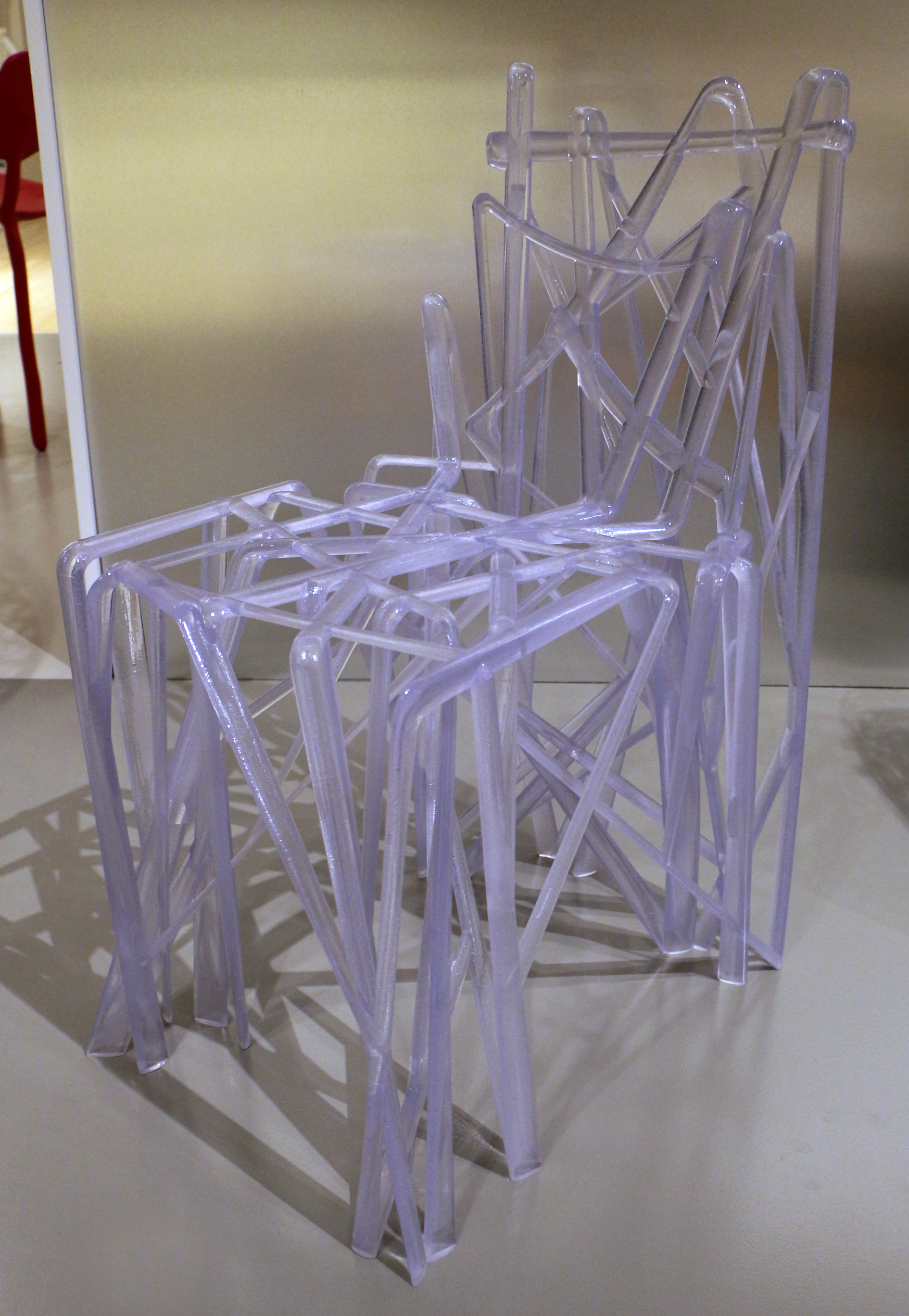 Furniture in the Indianapolis Museum of Art